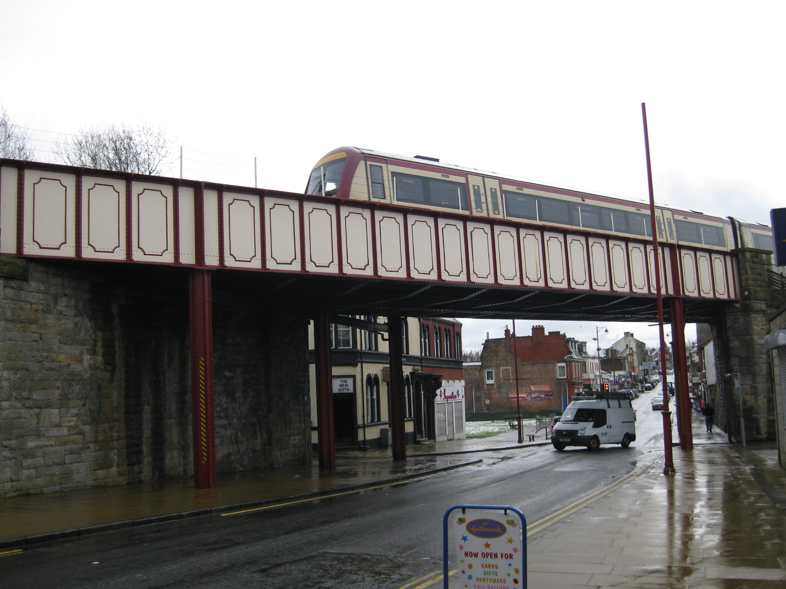 Cowdenbeath Rail Bridge. Pillar is inscribed "Laid with masonic honours 27 April 1889"